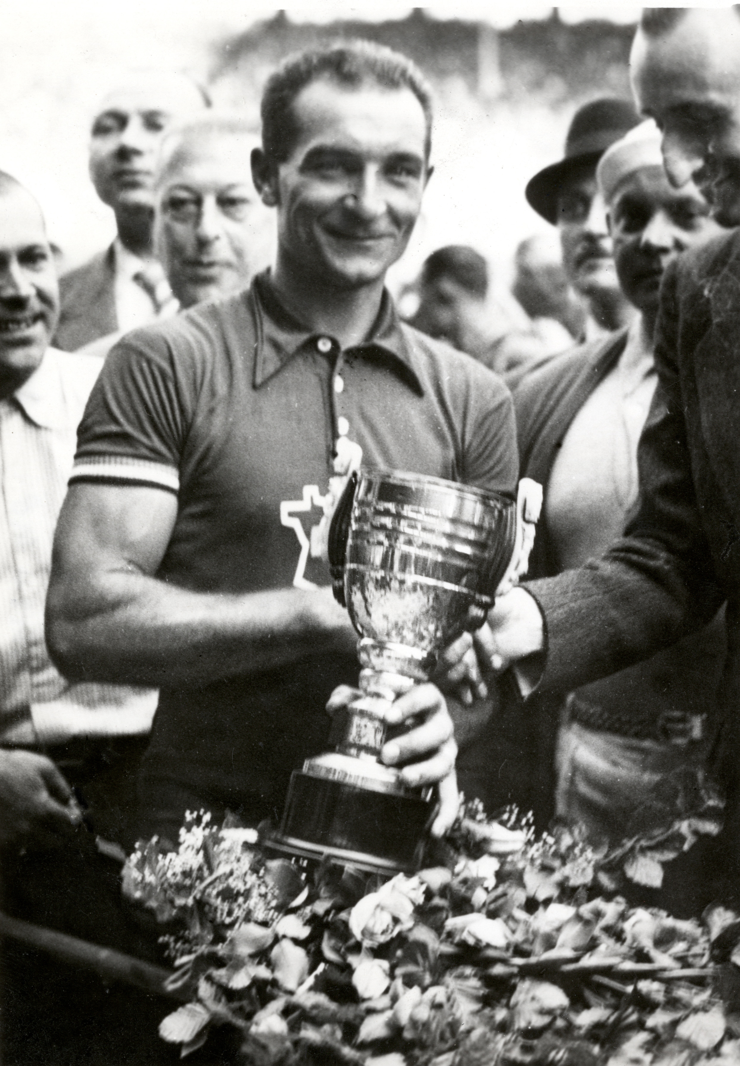 Frenchman Roger Lapébie, being honoured for his victory in the 1937 Tour de France in Paris, 25 July 1937.